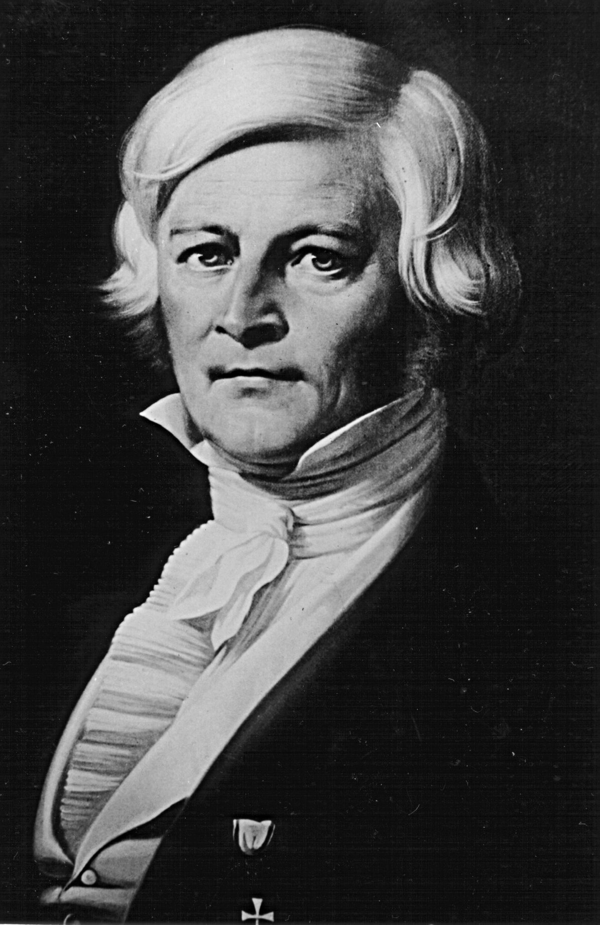 Peter Andreas Hansen (December 8, 1795 – March 28, 1874)